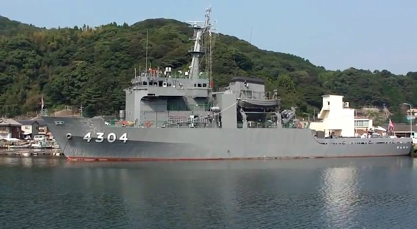 JS Genkai (AMS-4304) in Kariya Bay, Genkai, Saga.